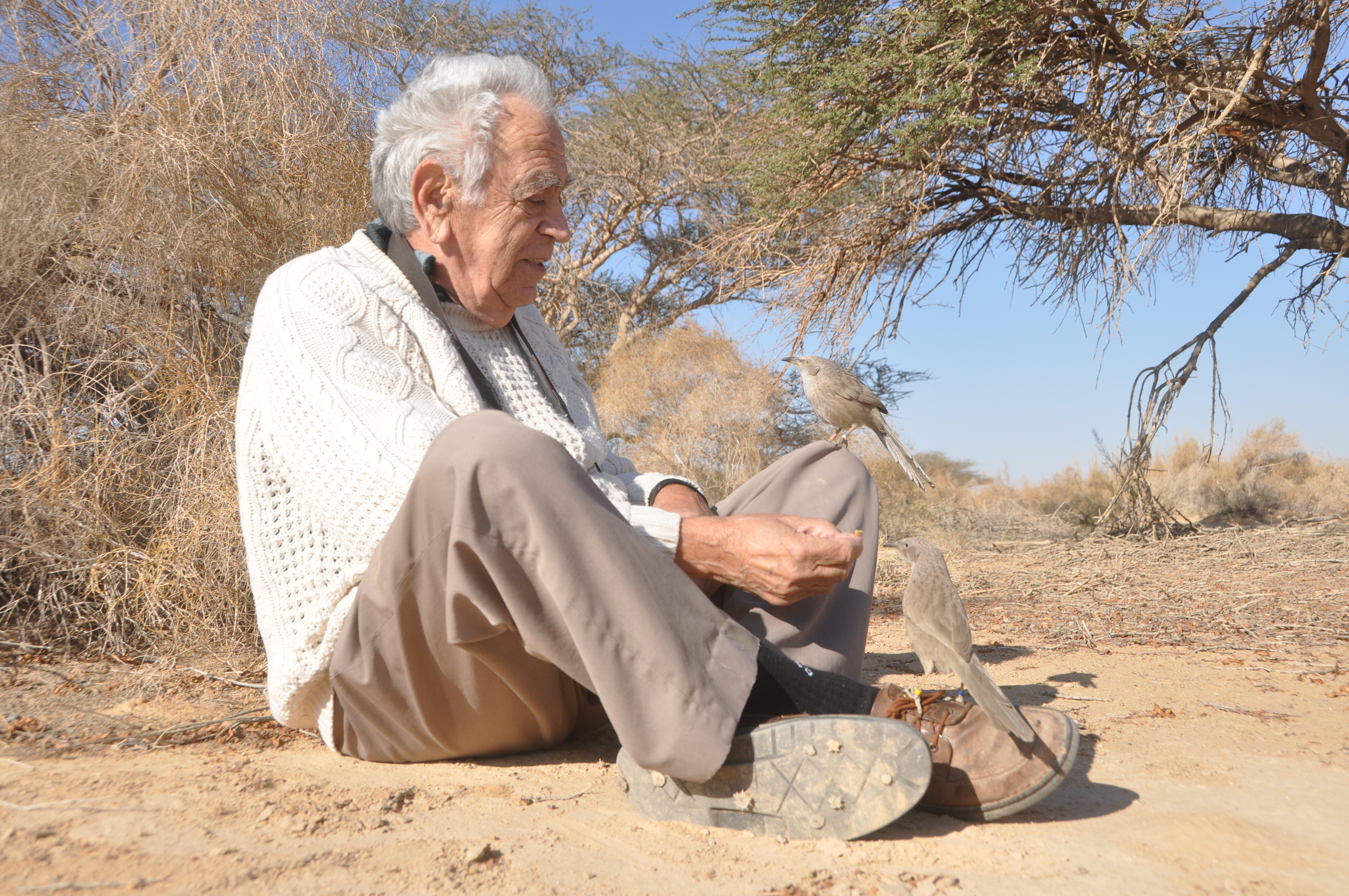 Amotz Zahavi has studied a population of Arabian babblers in the Arava Valley in Israel since 1971.